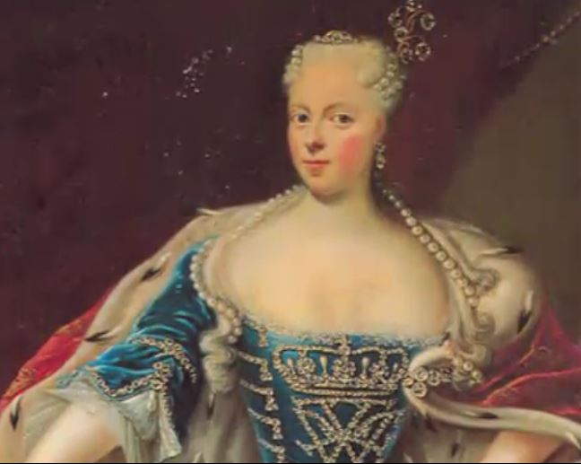 Anna Sophie Reventlow (1693-1743) as queen